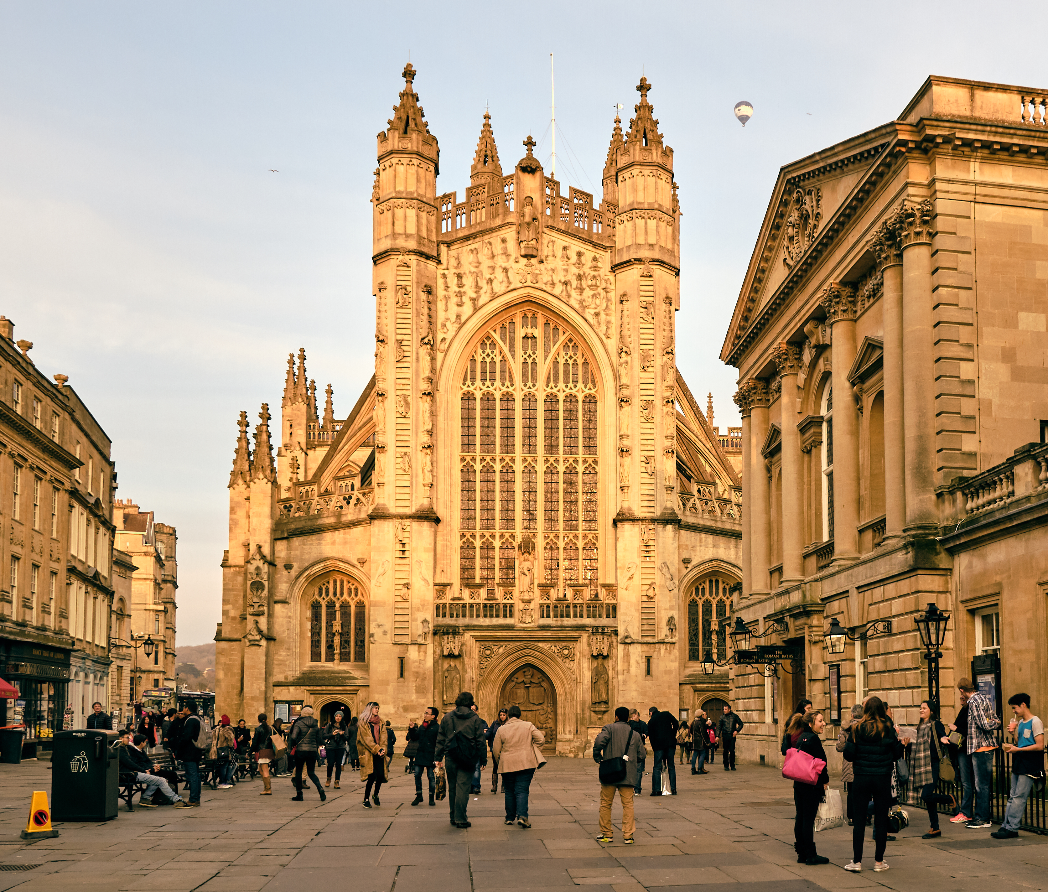 Bath, England